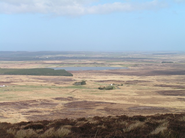 View towards Halkirk, from Beinn Freiceadain.